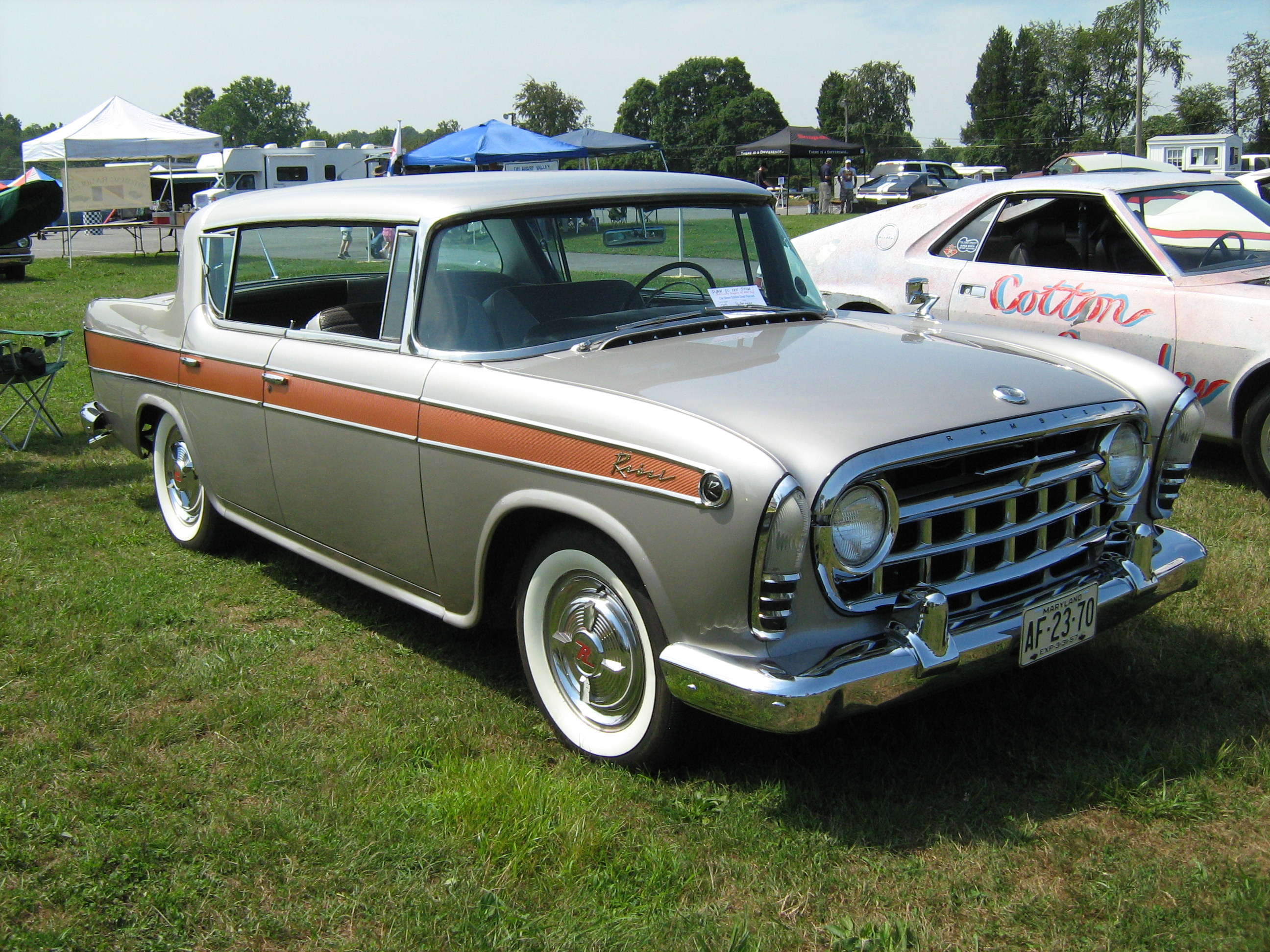 1957 Rambler Rebel, a mid-sized "muscle car" built by American Motors Corporation (AMC). A limited edition four-door hardtop (no center pillar) model designed to showcase AMC's new high-performance 327 cu. in. (5.4 L) V8 engine. Picture taken at the Cecil County Dragstrip in Maryland.